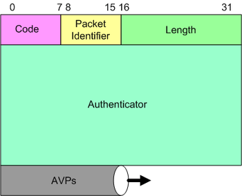 Радиус пакетын бүтэц